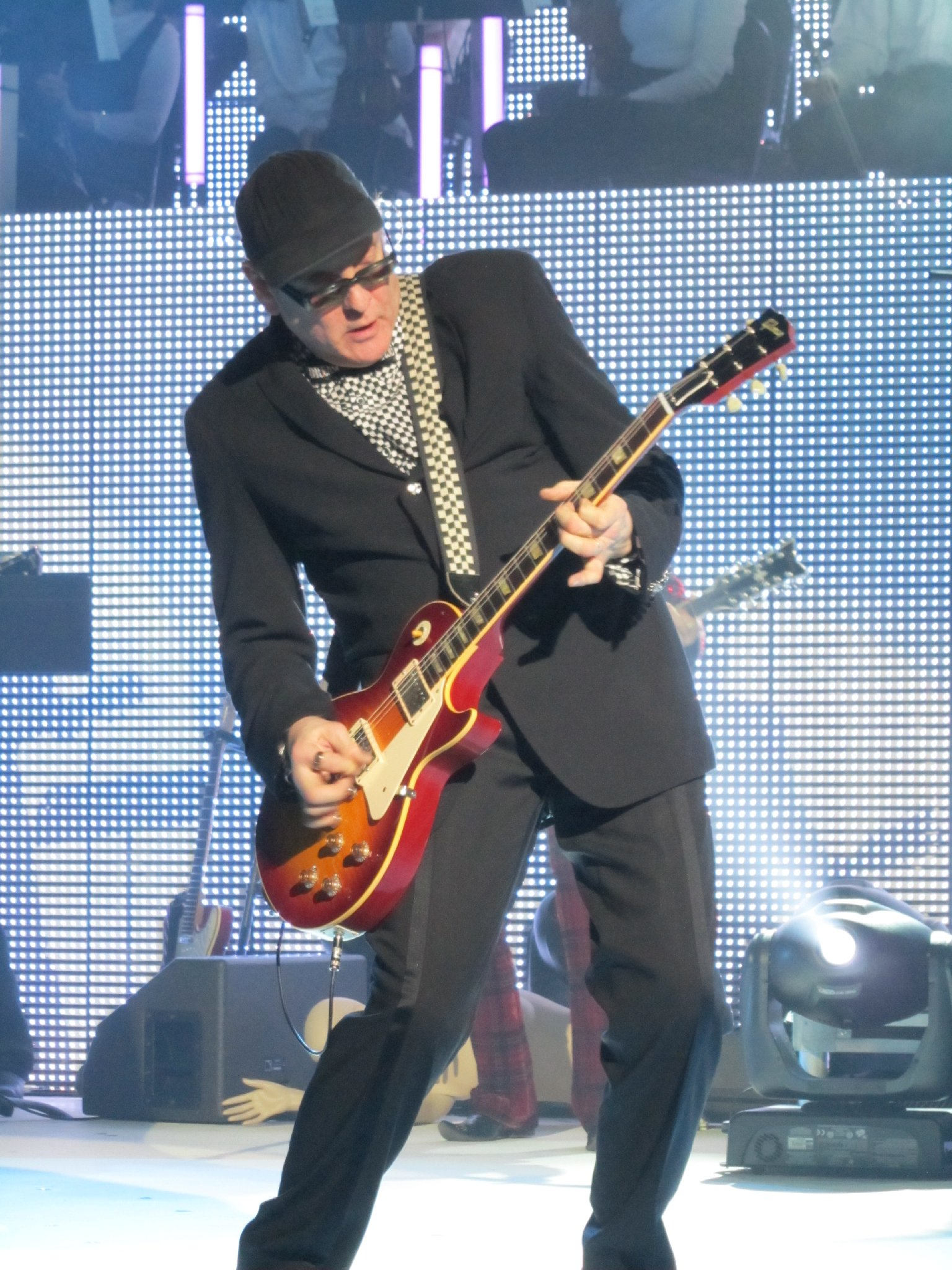 Rick Nielsen, playing at Cheap Trick's "Dream Police" show in Milwaukee, WI on 25 Feb 2011.